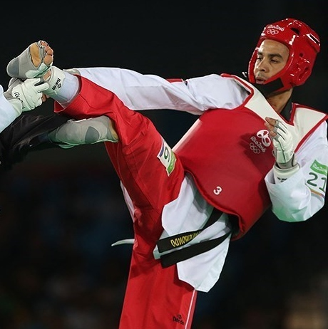 Taekwondo at the 2016 Summer Olympics - 58g